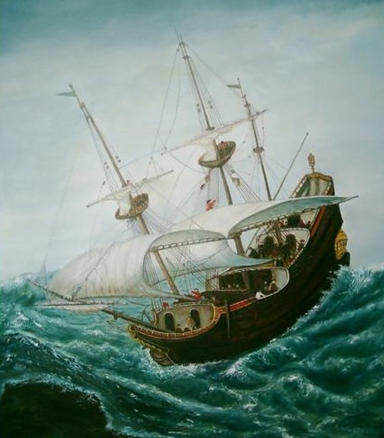 Galion (anonyme)